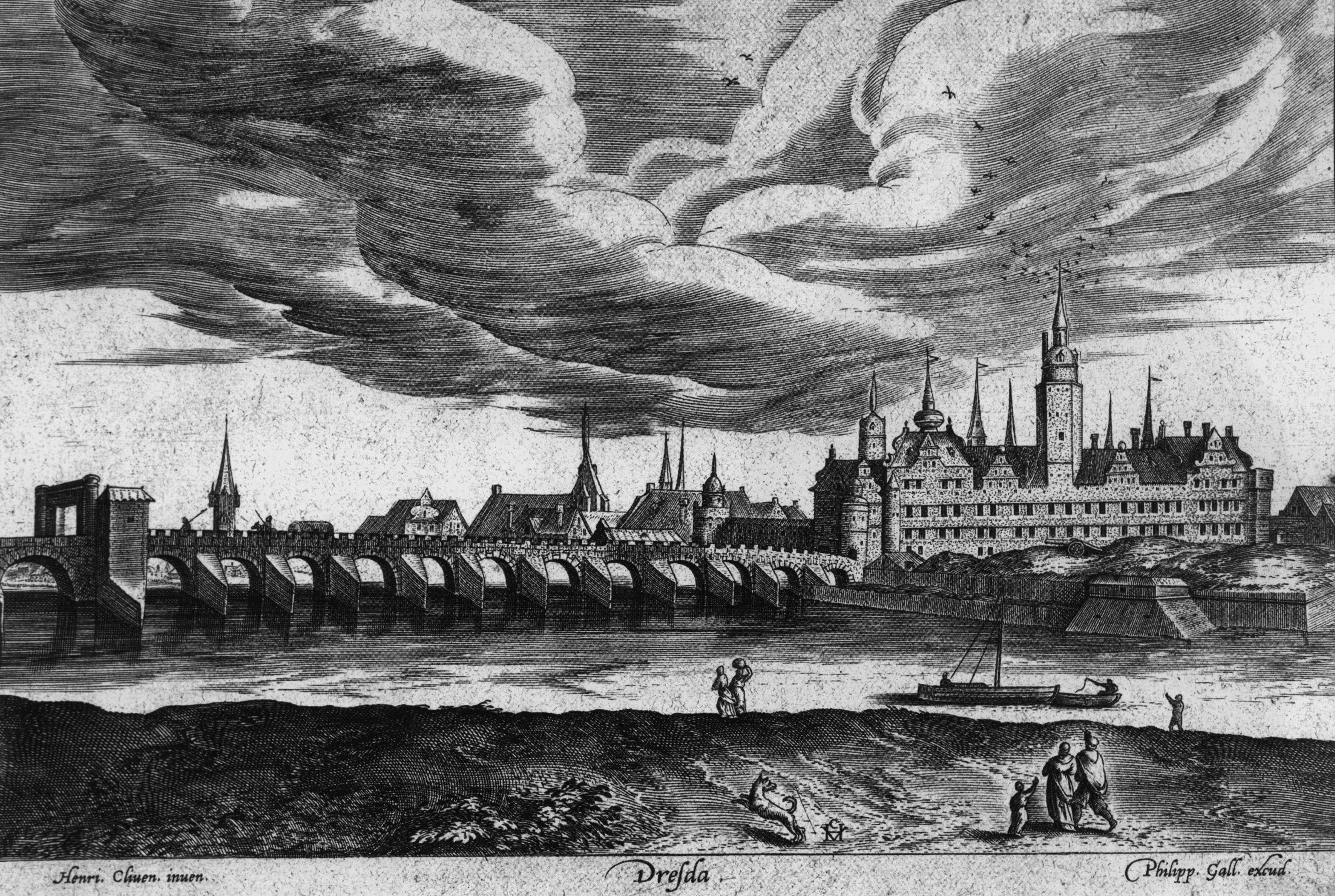 Excerpt from a view of Dresden, 1550